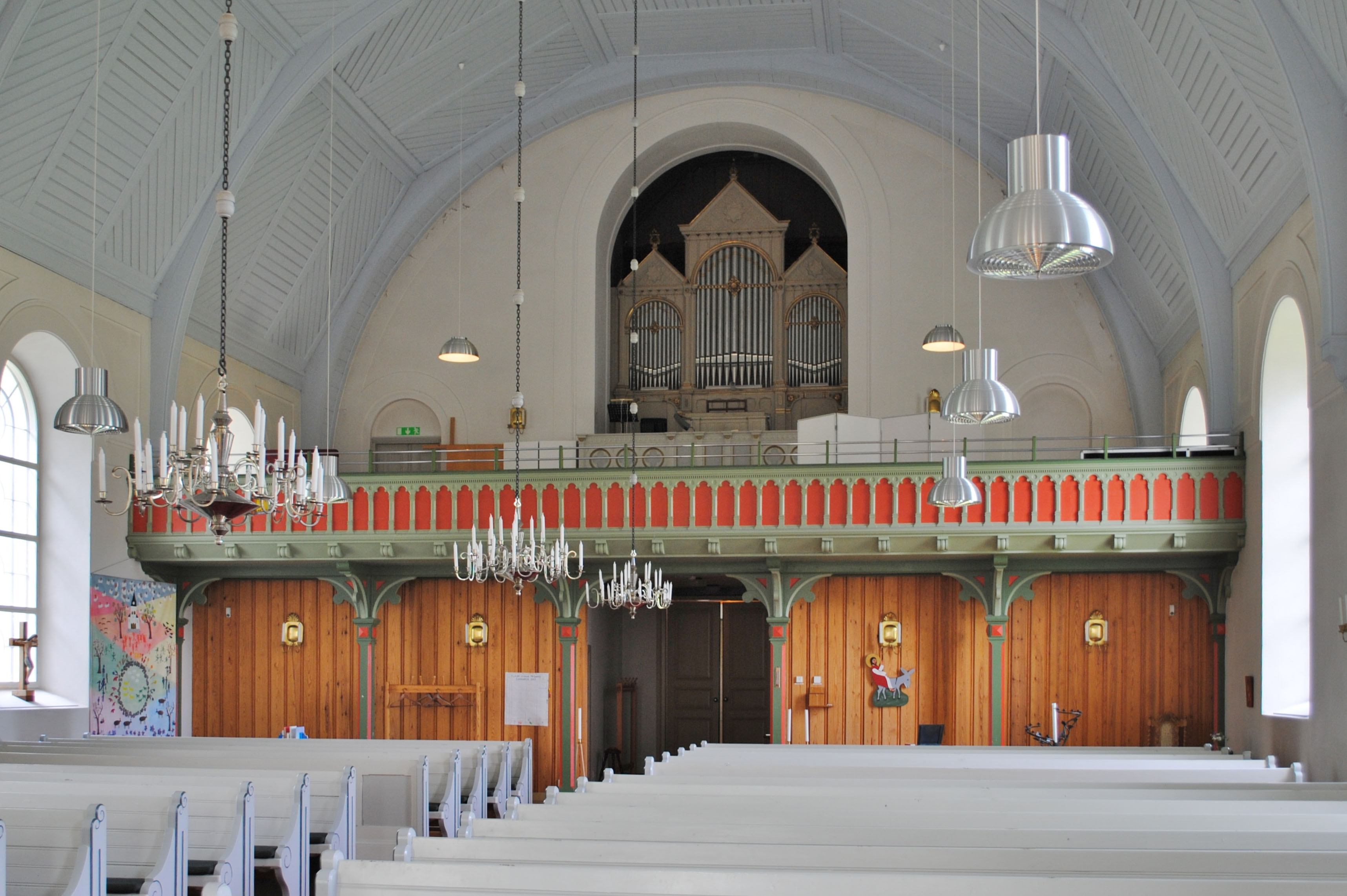 Furuby Church. Church room with gallery organ